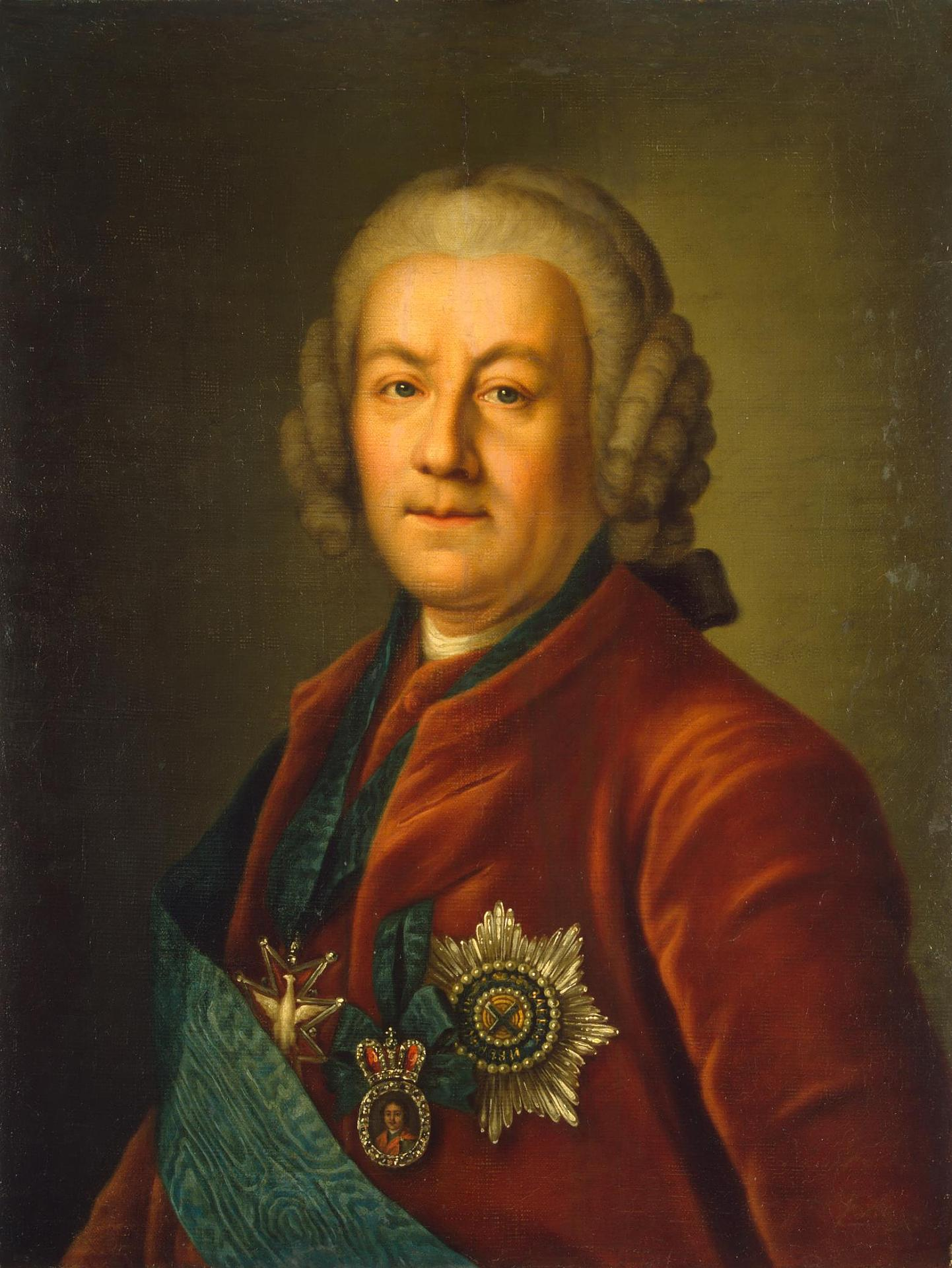 Chancellor Alexey Bestuzhev-Ryumin (1693-1768)